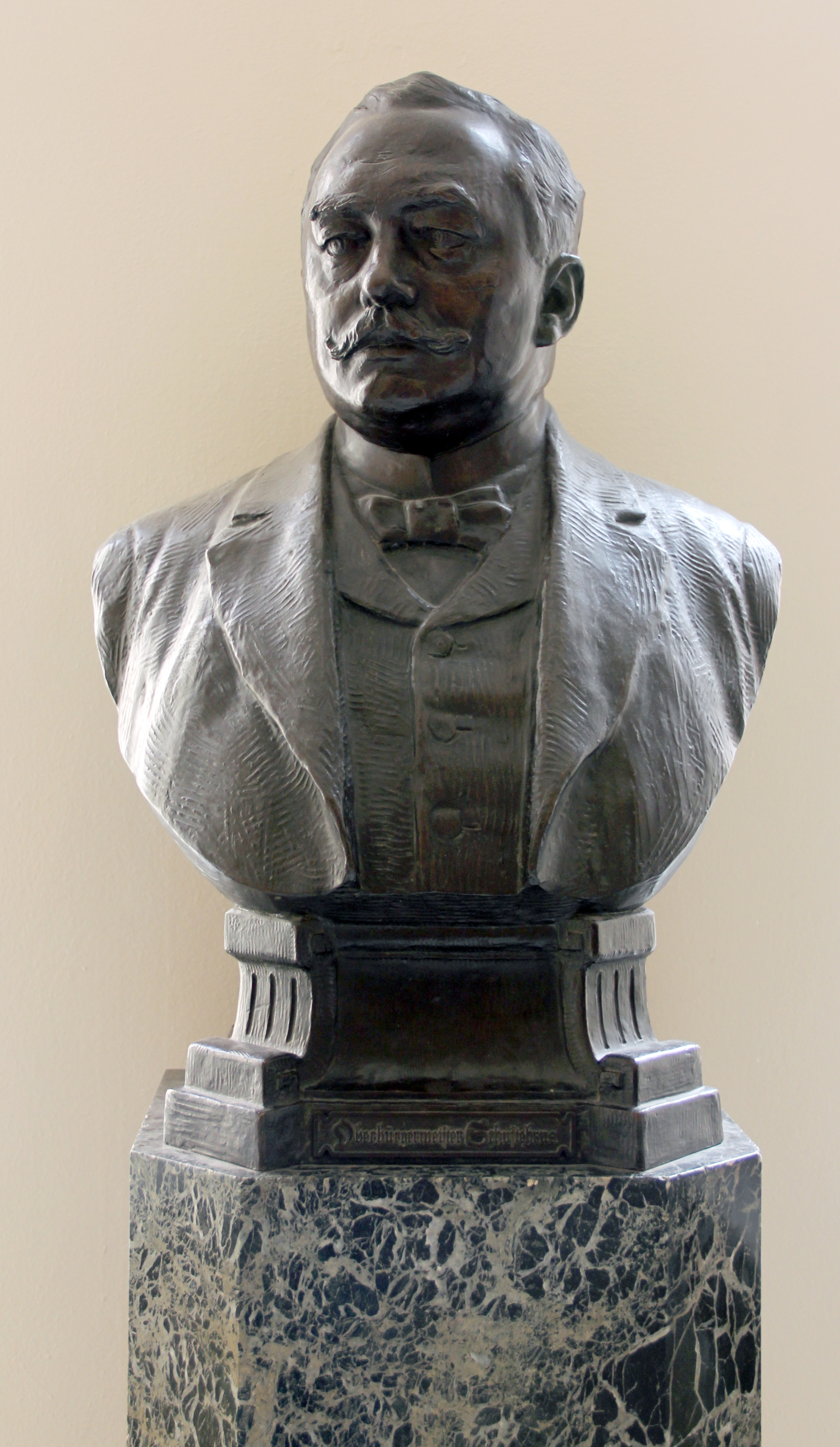 Bust, Kurt Schustehrus, Otto-Suhr-Allee 100, Berlin-Charlottenburg, Germany